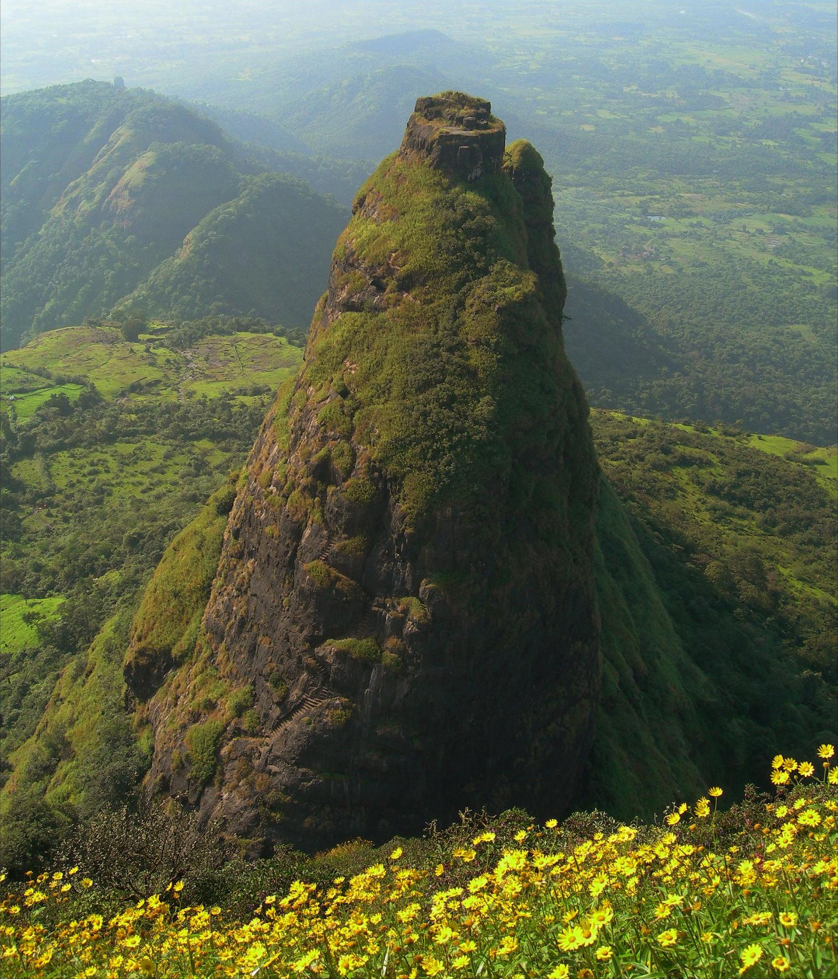 Hill fortification in Maharashtra, India